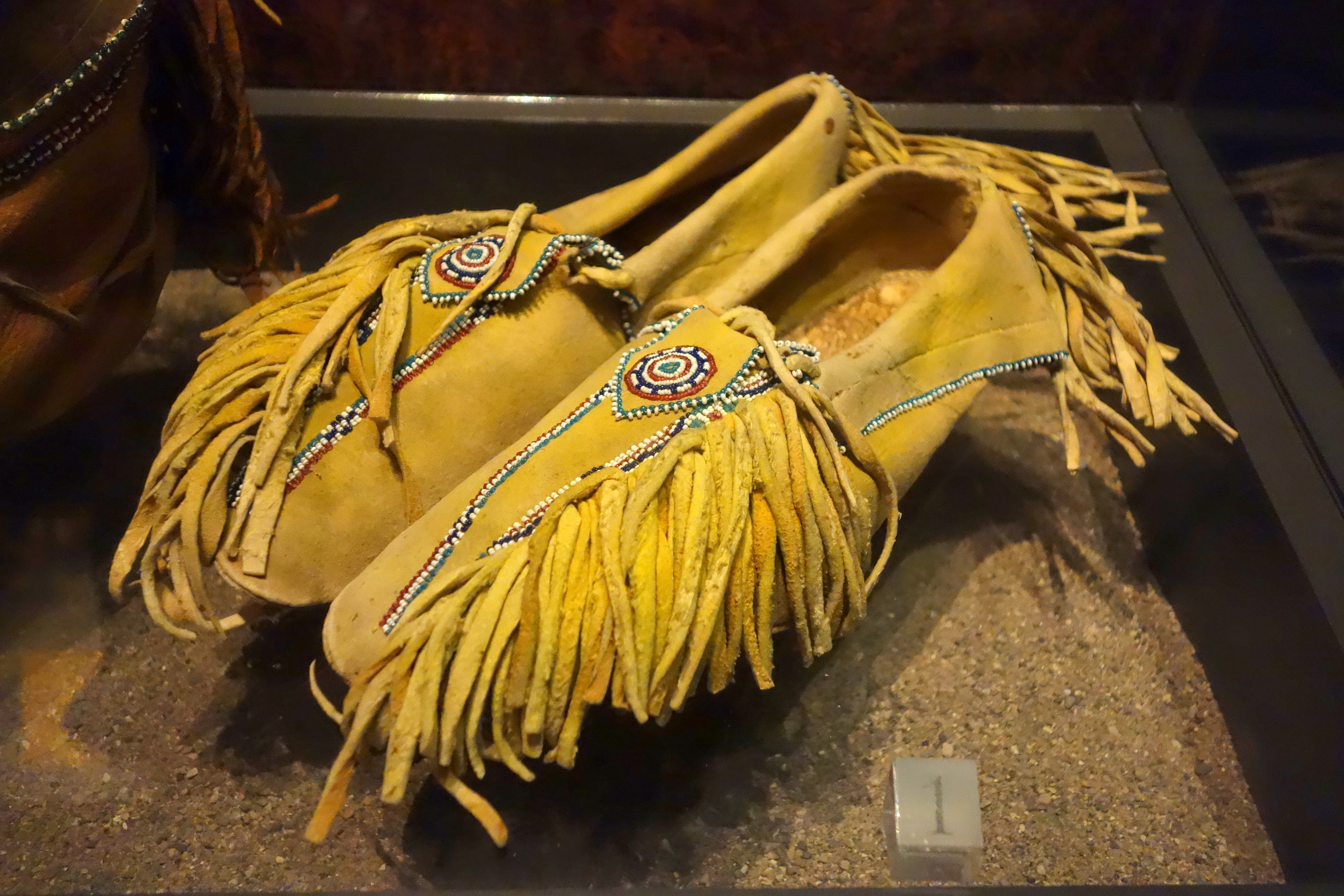 Exhibit in the Bata Shoe Museum, Toronto, Ontario, Canada. This item is old enough so that its design is in the public domain. The museum permitted photography without restriction.